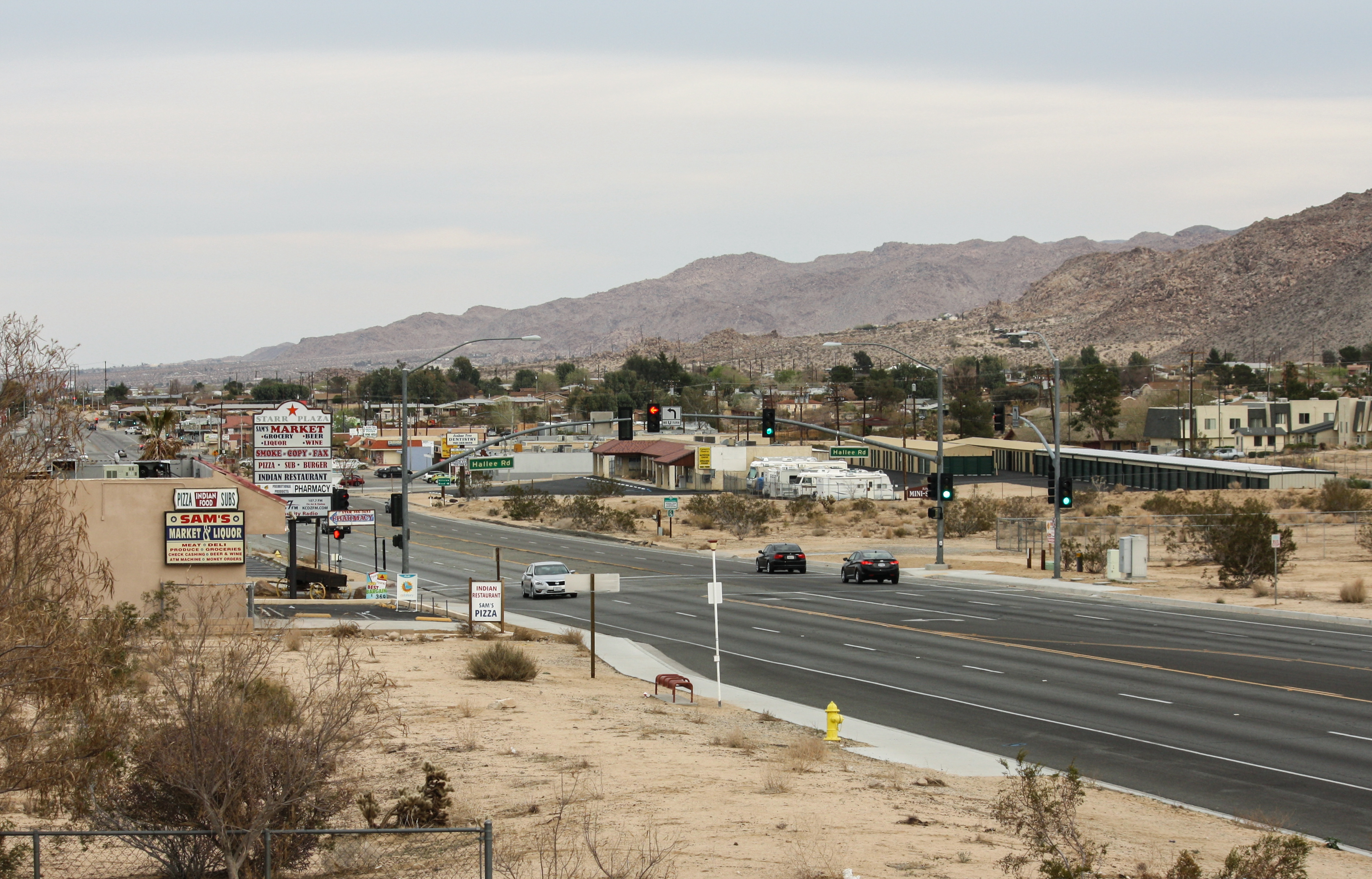 Twentynine Palms Highway (State Route 62) in Joshua Tree, California